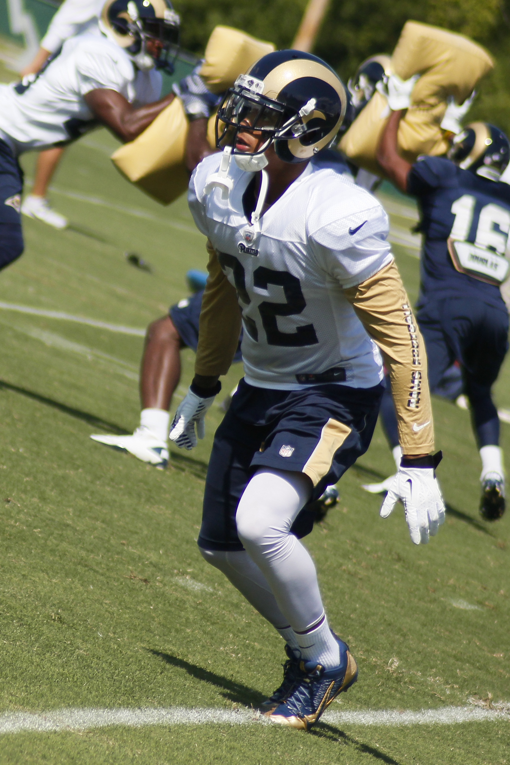 Rams player Trumaine Johnson. 2013